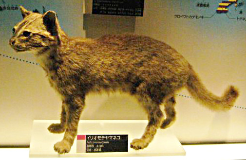 Taxidermy of Iriomote Cat at Japan National Science Musium, Tokyo, Japan.